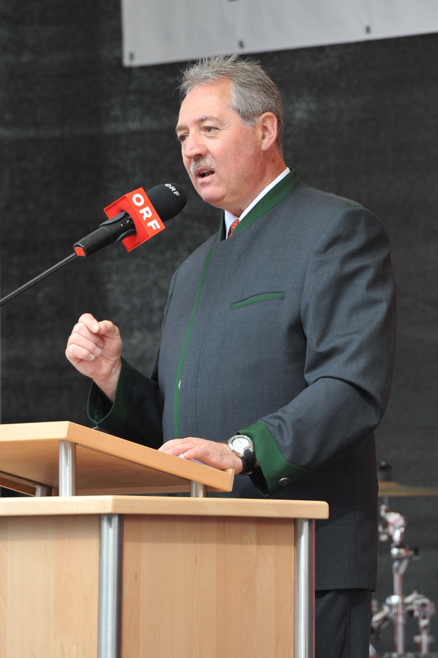 The making of this document was supported by Wikimedia Austria. Eröffnung der Ortsbildmesse Perg 2012: Viktor Sigl